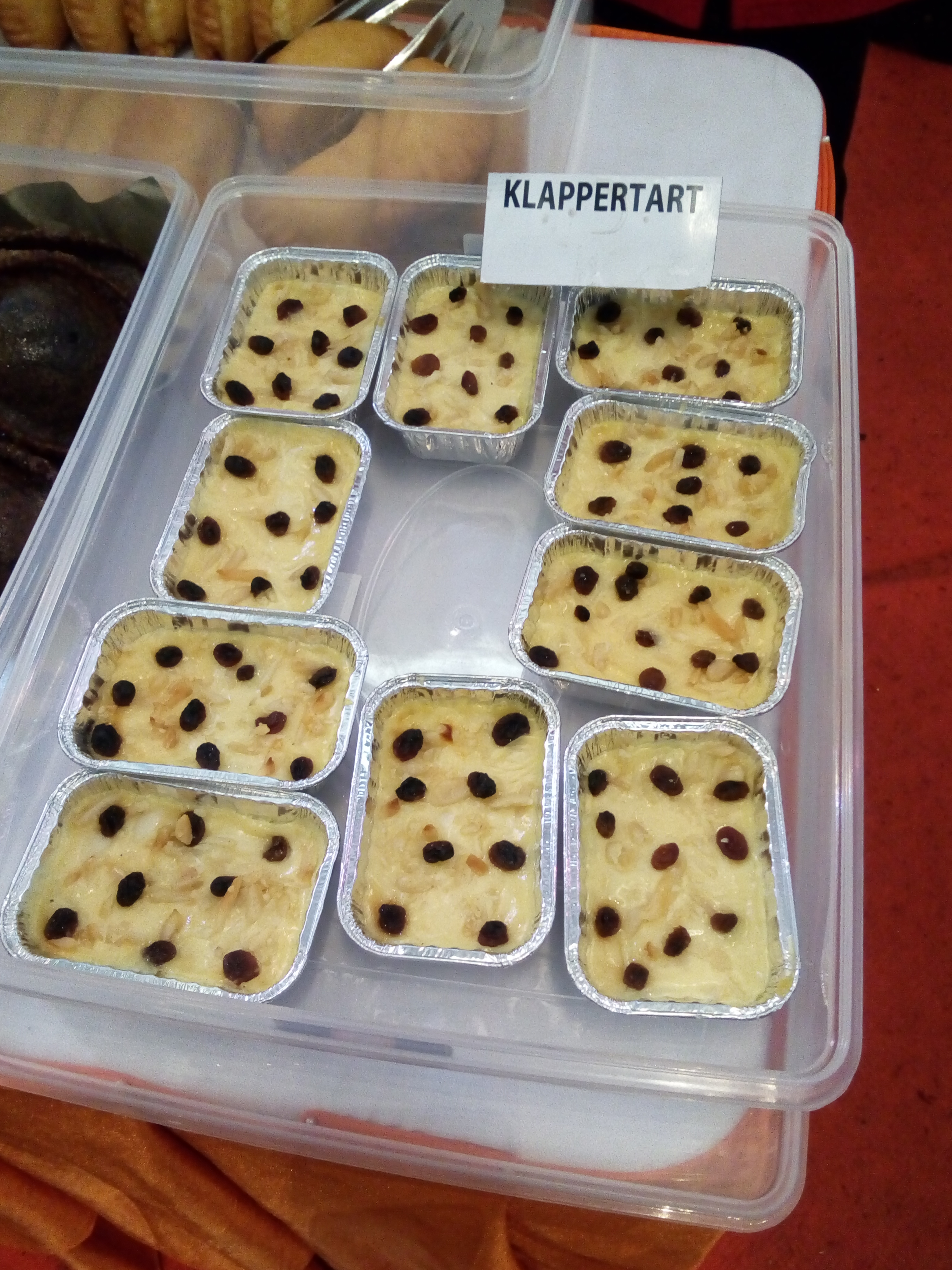 Klappertart in Jakarta.